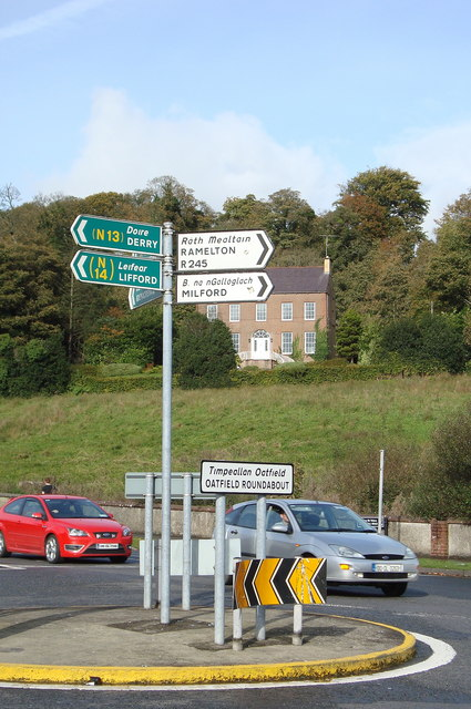 The Oatfield Roundabout So called because of its proximity to the sweet factory Oatfield.